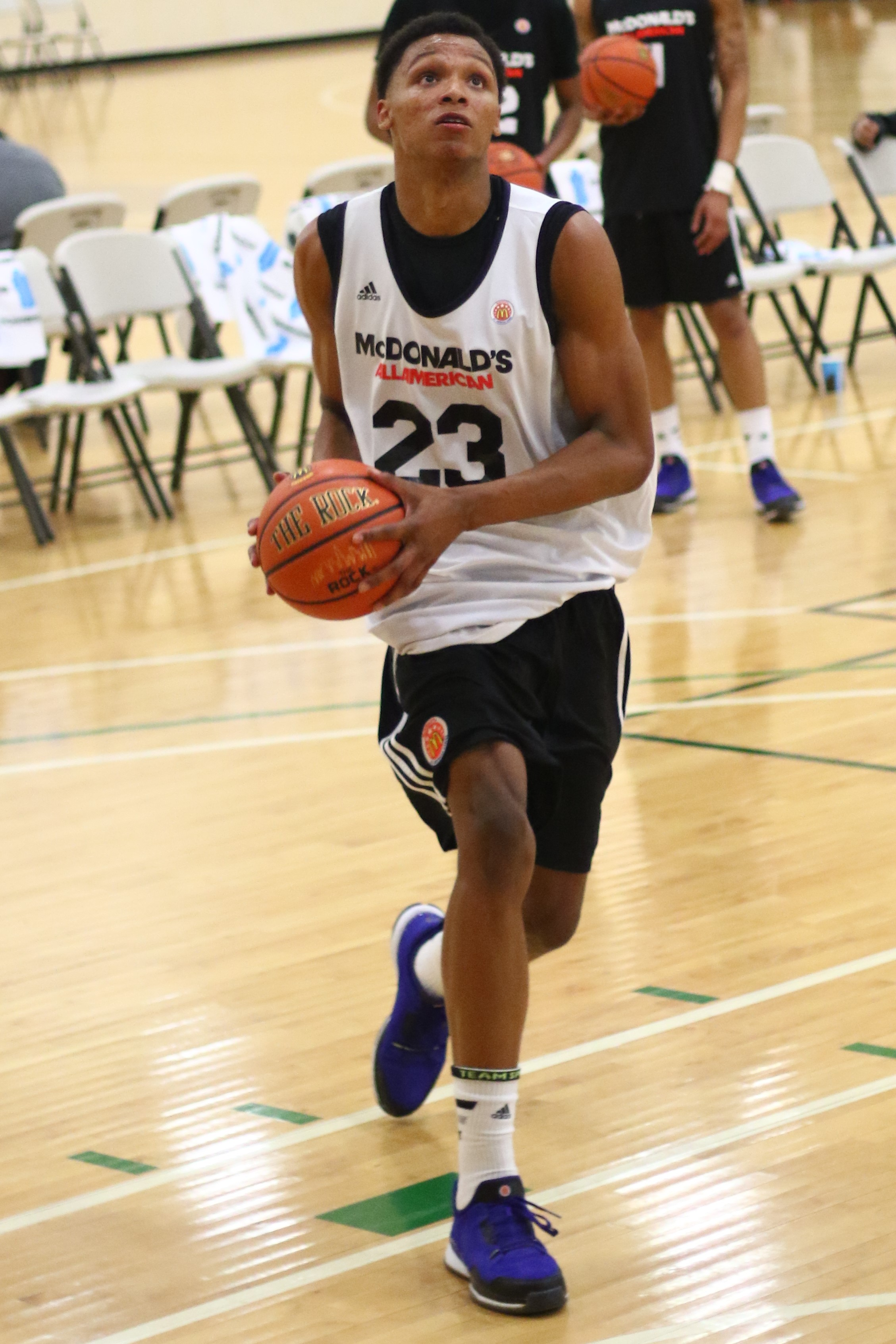 Ivan Rabb in the w:2015 McDonald's All-American Boys Game closed practice